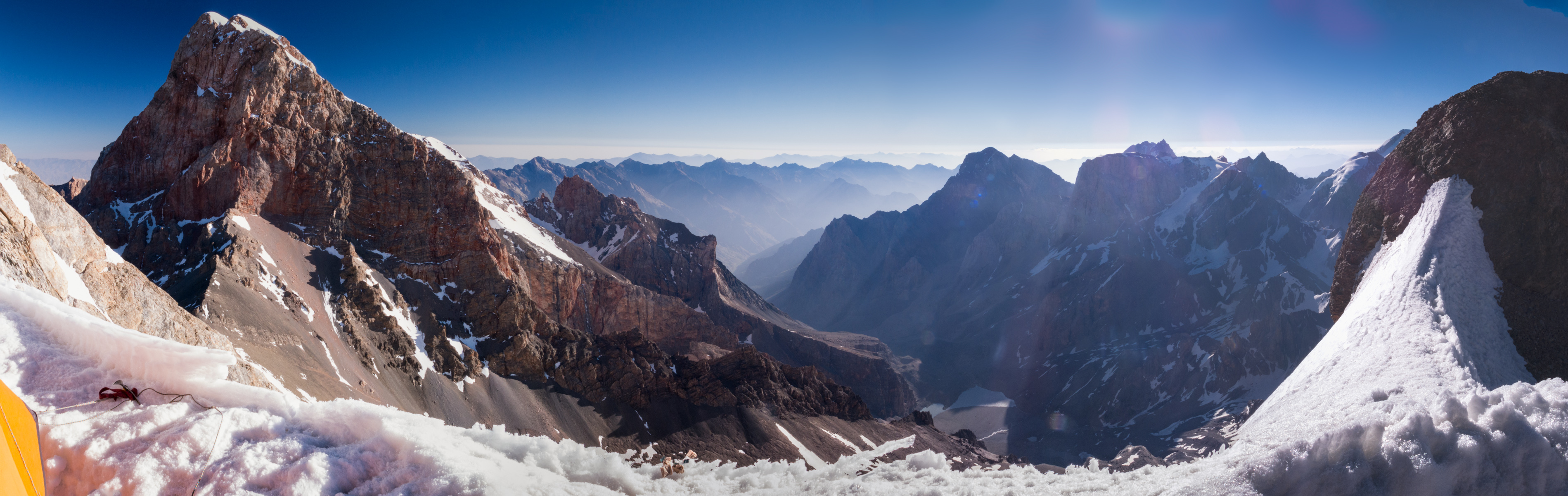 Trekking and climbing in Fann Mountains 2013